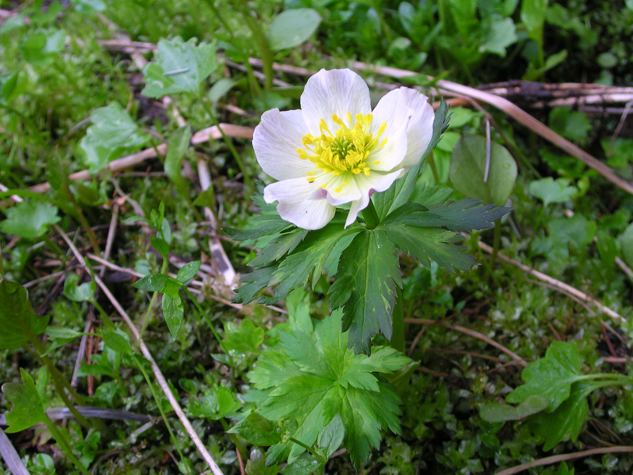 Trollius laxus American globeflower, western globeflower Dicot Ranunculaceae (I got this wrong my first time out, thanks to CA Floristics CA Floristics for the help.) Haney Meadow, Kittitas County, Washington, USA 5 Jun 2005 I061405_130